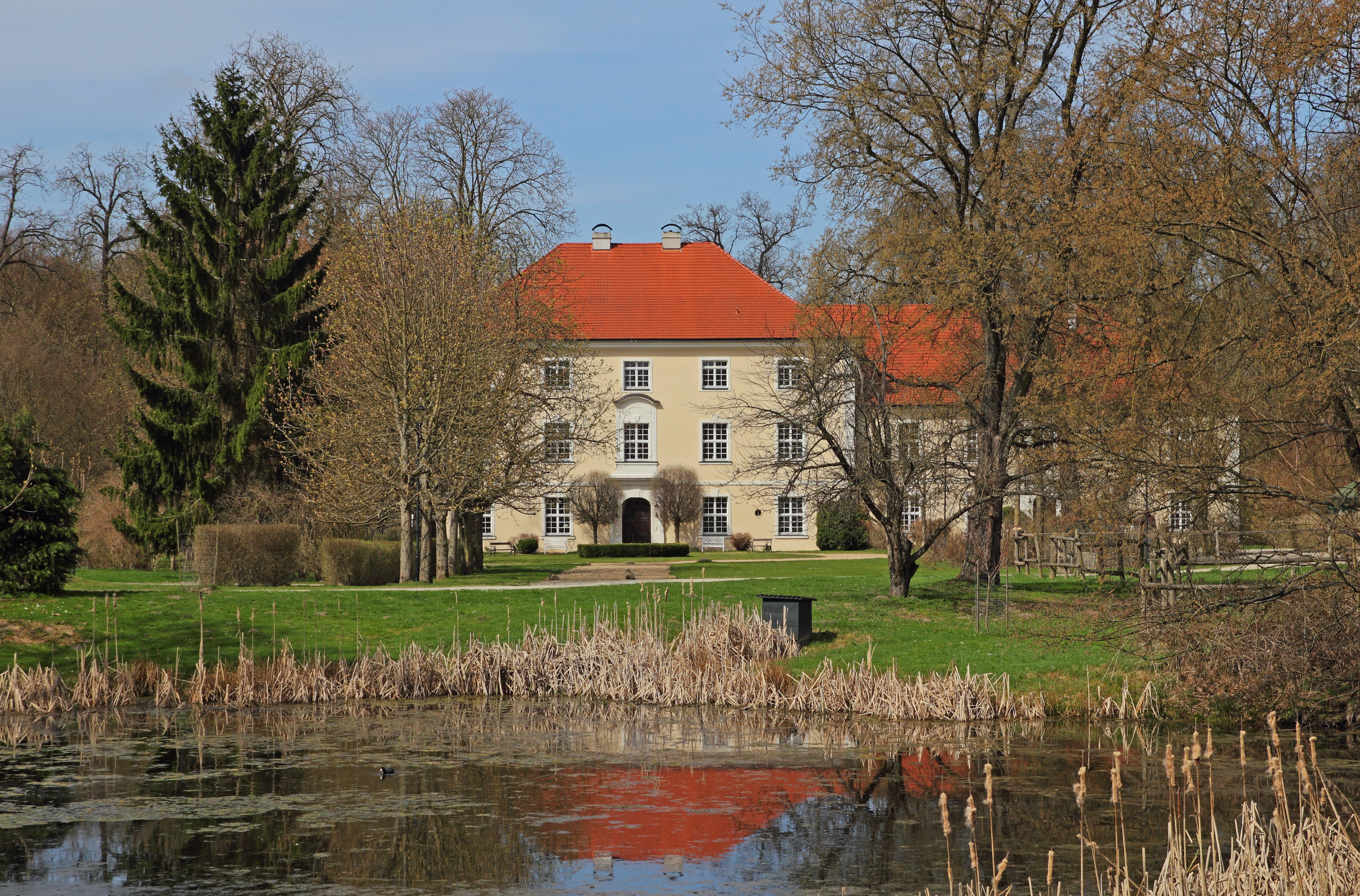 Castle and landscape garden in Madlitz-Wilmersdorf, Brandenburg, Germany